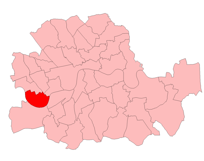 A map of Fulham constituency within the London County Council area, as it existed from 1955 to 1974.